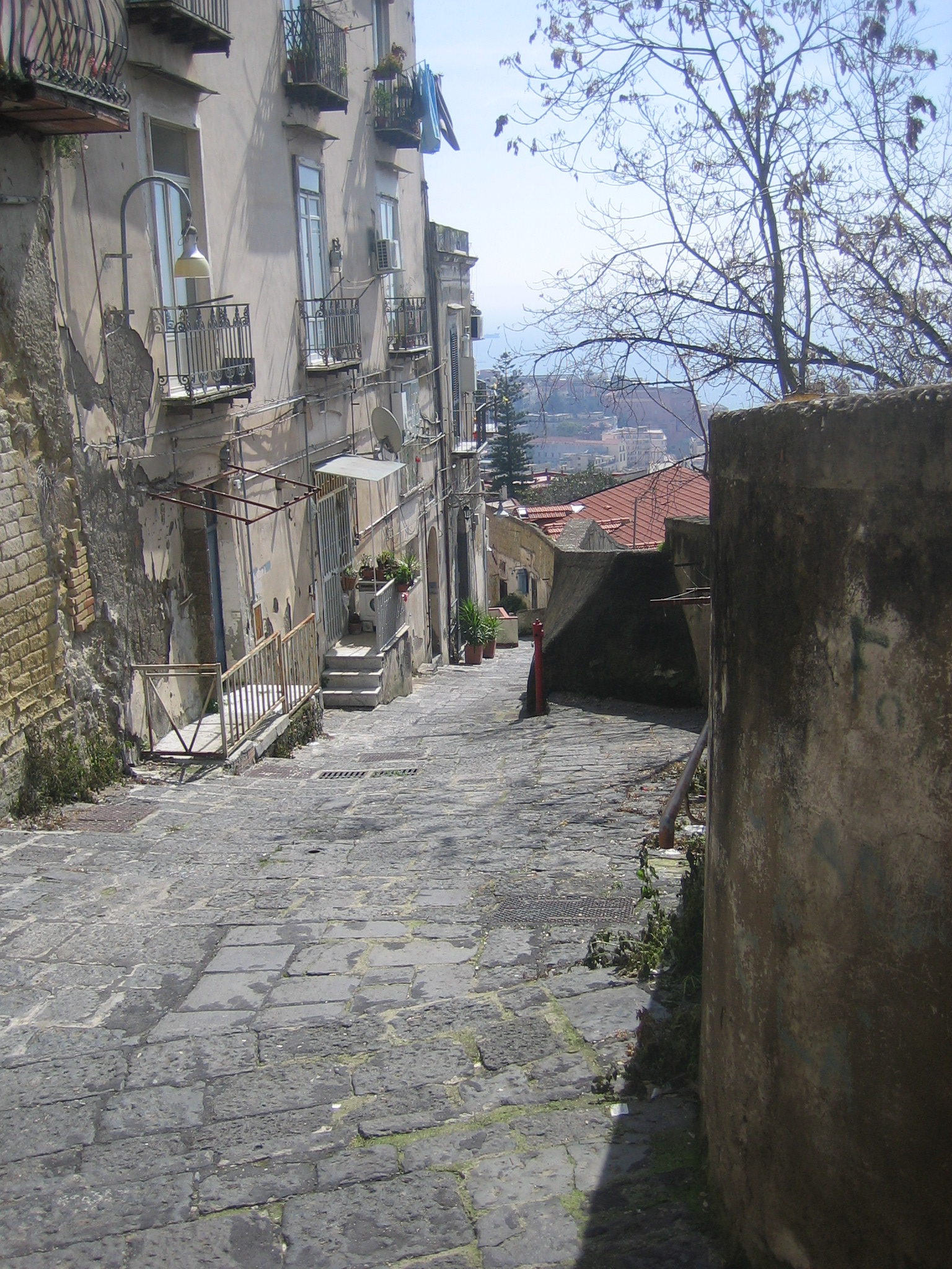 Salita del Petraio, Naples